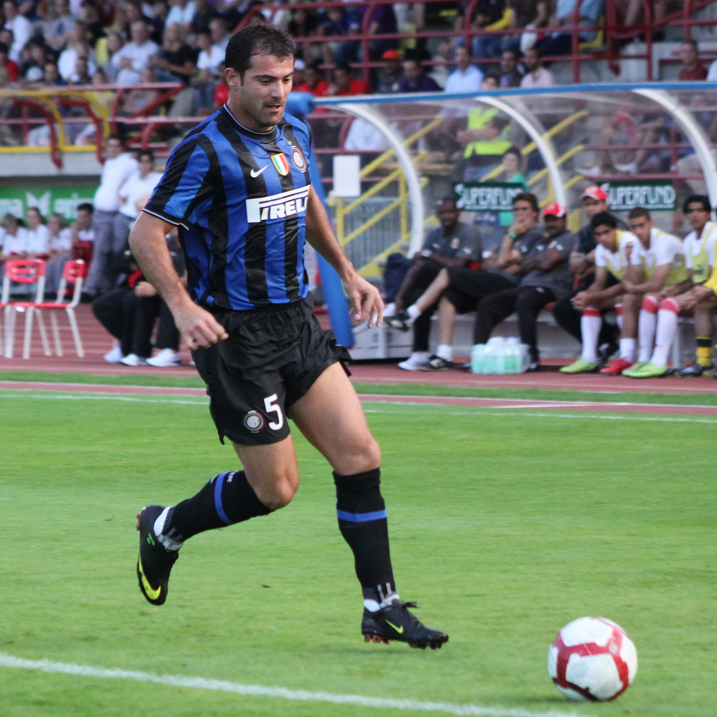 Dejan Stanković - F.C. Internazionale Milano